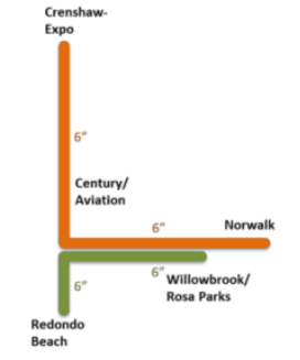 Operating plan approved for the new Crenshaw/LAX line in Los Angeles